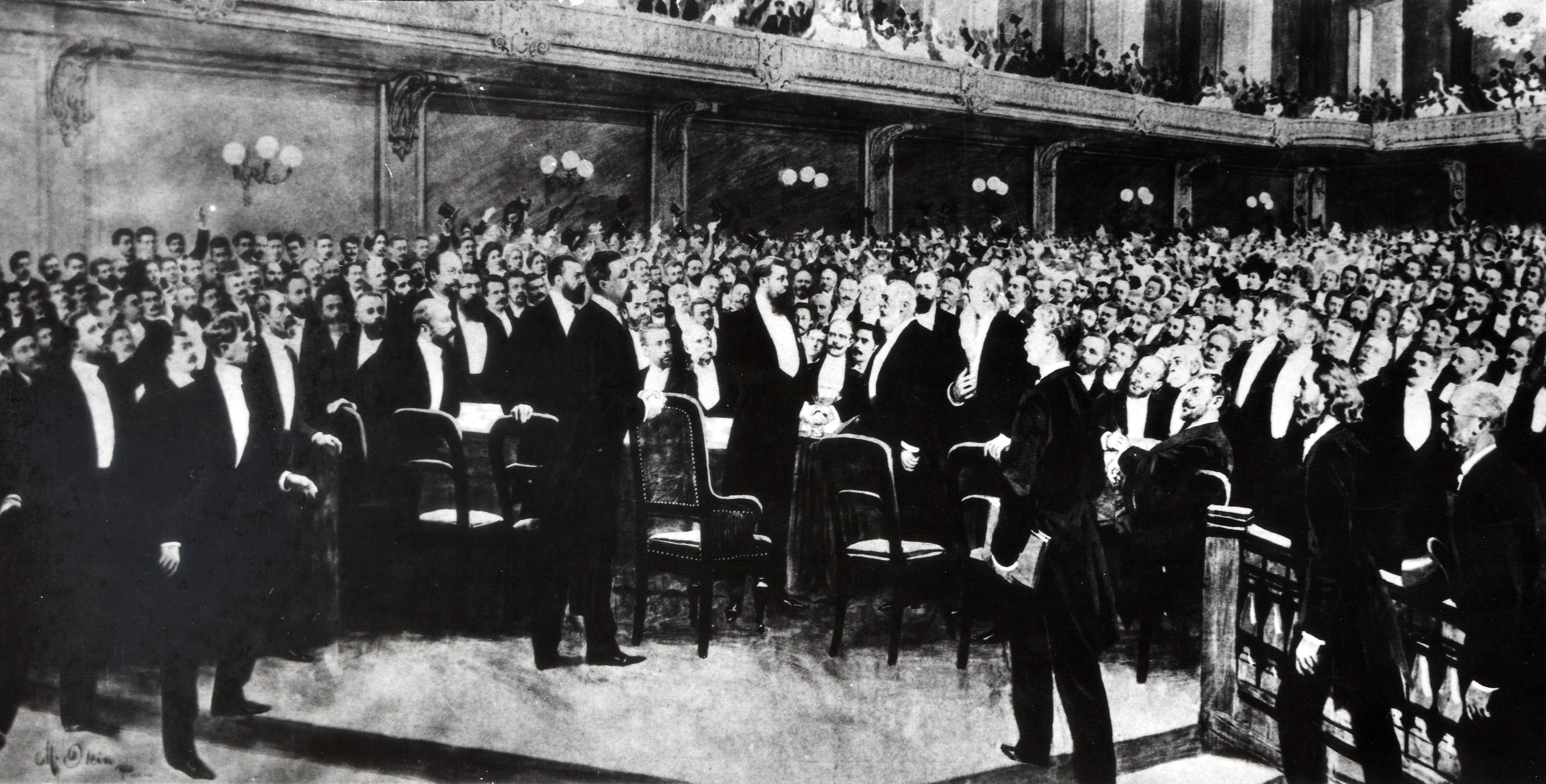 THEODOR HERZL AT THE FIRST ZIONIST CONGRESS IN BASEL ON 25.8.1897. תאודור הרצל בקונגרס הציוני הראשון - 1897.8.25